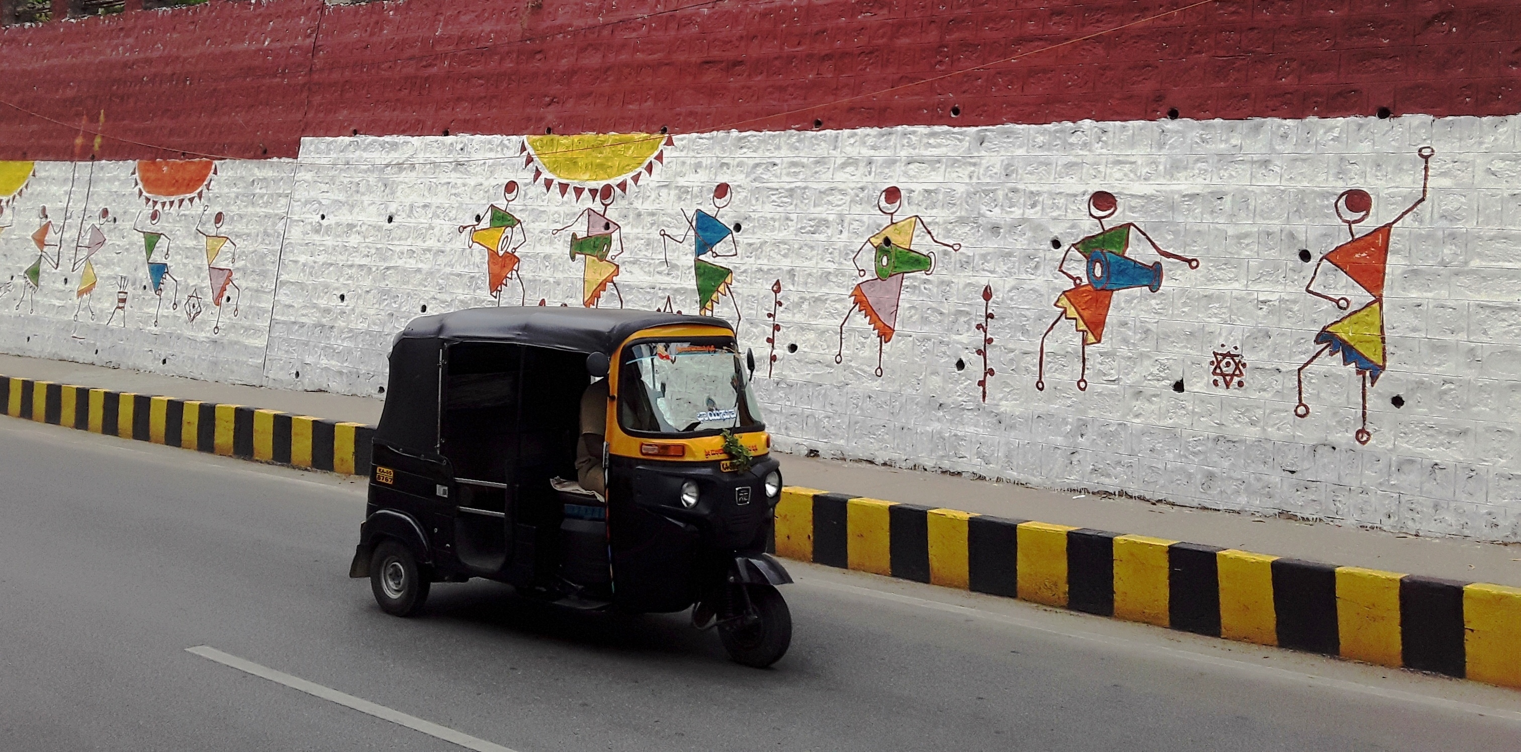 Fire Brigade Junction, Mysore, Karnataka, India.